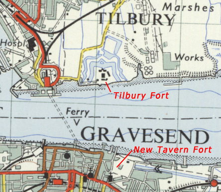 Map of the area of New Tavern and Tilbury Forts. Edited extract from Ordnance Survey One-inch, Seventh Series, 1952-1961